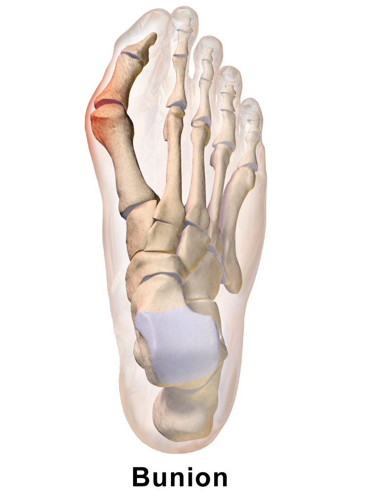 Bunion. See a full animation of this medical topic.